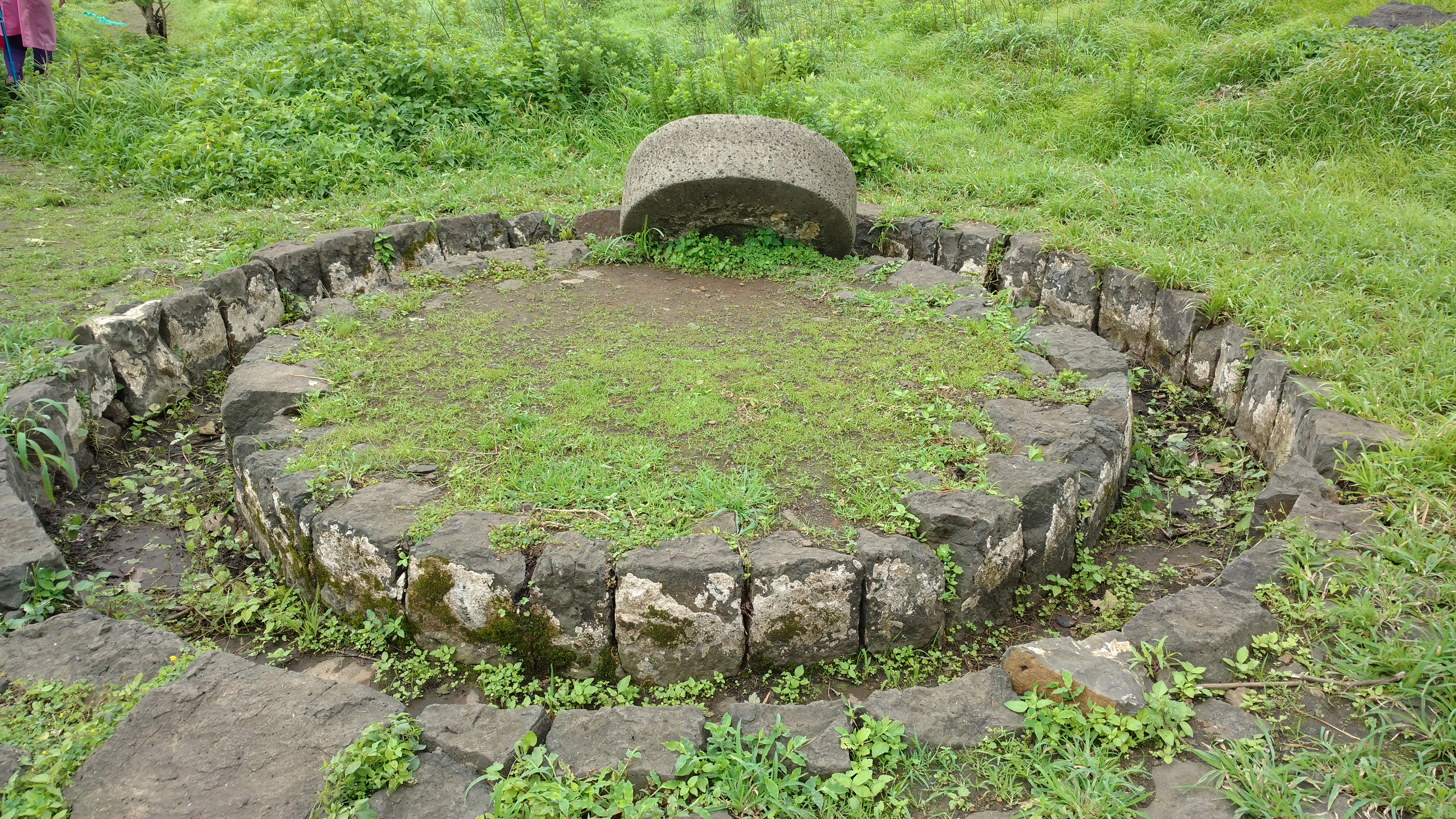 Limestone crusher; Rhoida fort